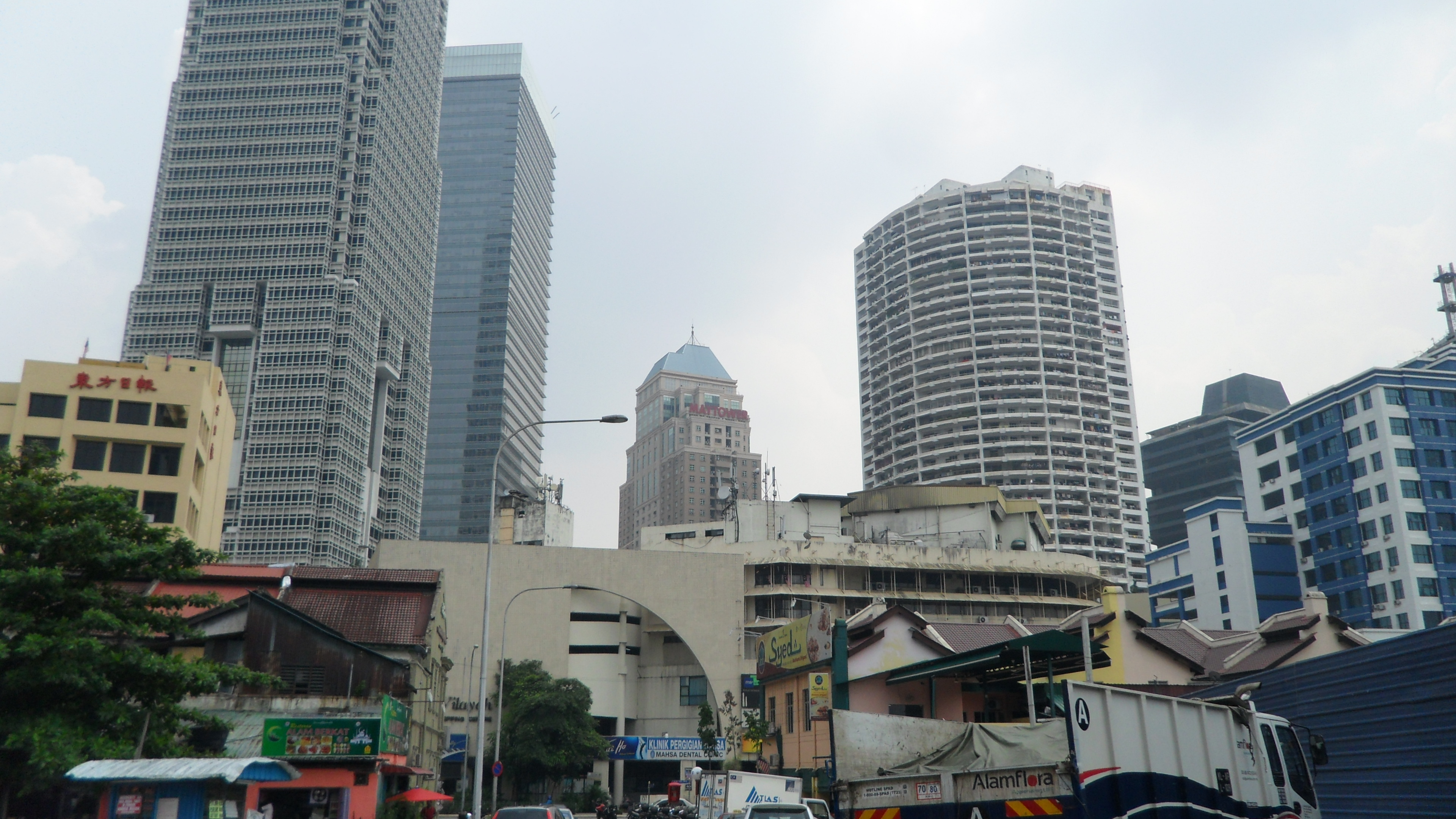 Jalan Doraisamy, which links Jalan Sultan Ismail to Jalan Dang Wangi, Kuala Lumpur.